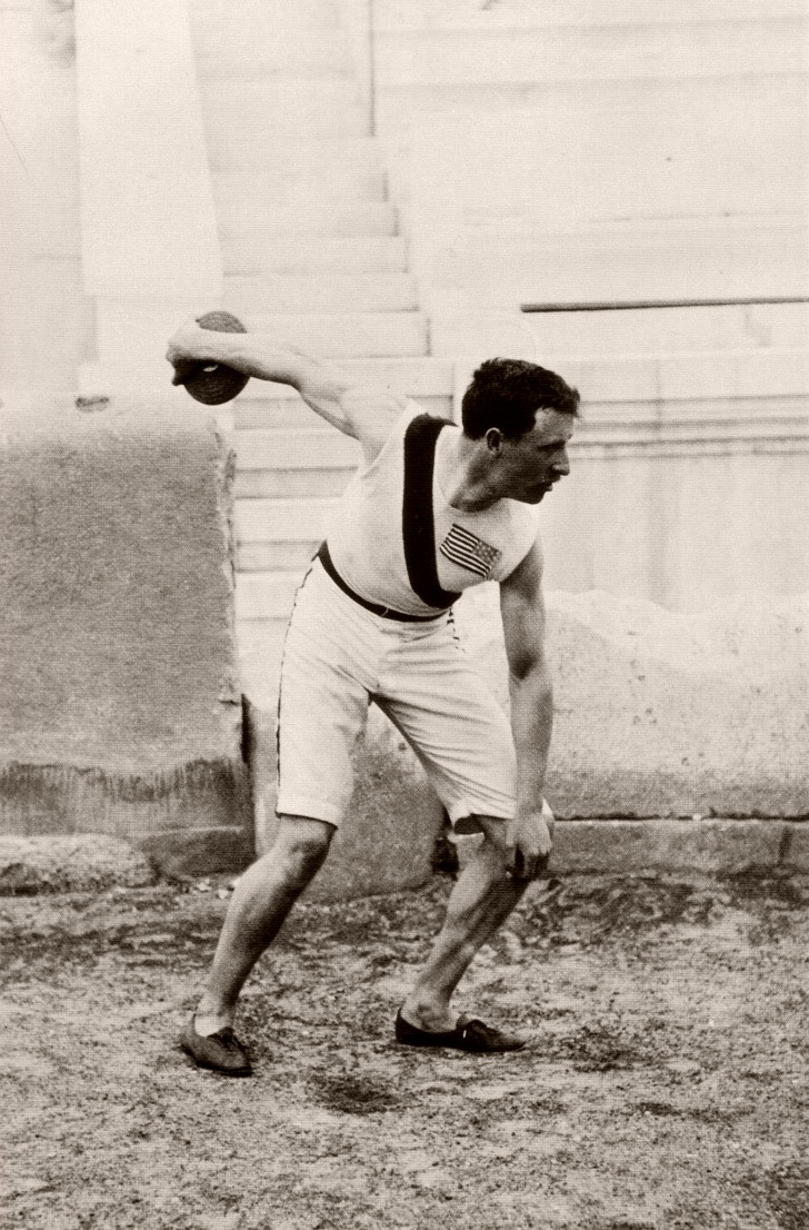 Olympic Games 1896, Athens. The Olympic champion in the discus, Robert Garrett (USA)